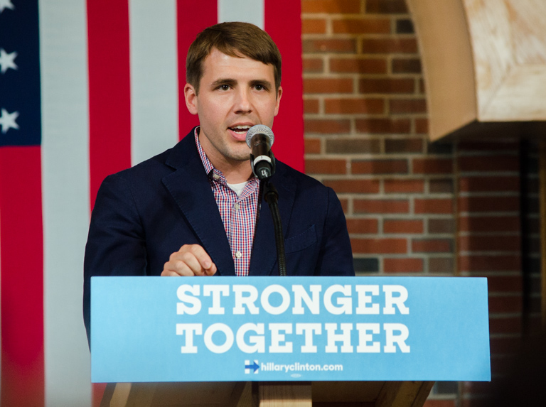 New Hampshire Executive Council member Chris Pappas at a Clinton/Kaine rally, St. Anselm College, Manchester, New Hampshire, August 13, 2016.